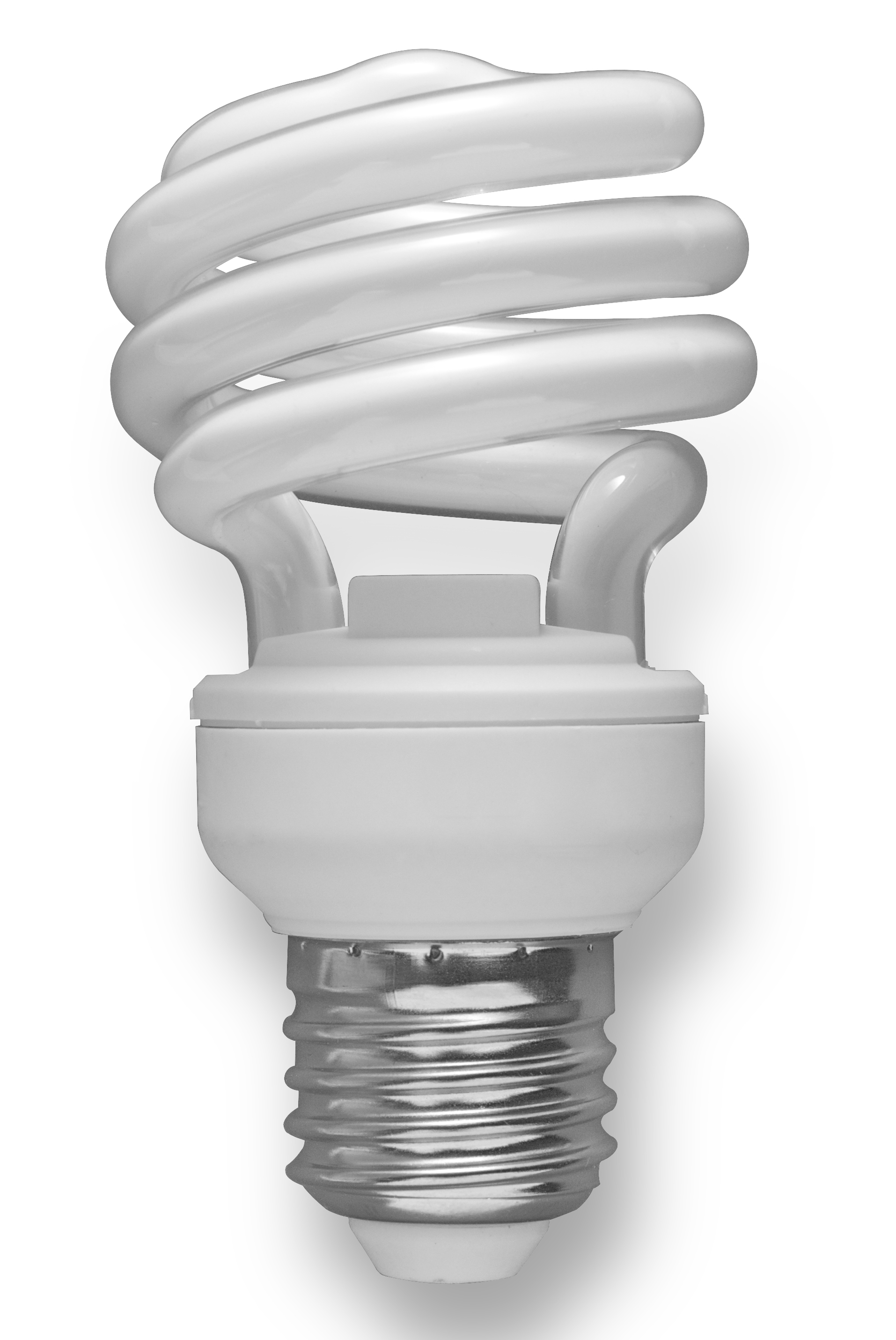 A spiral CFL bulb on a white background